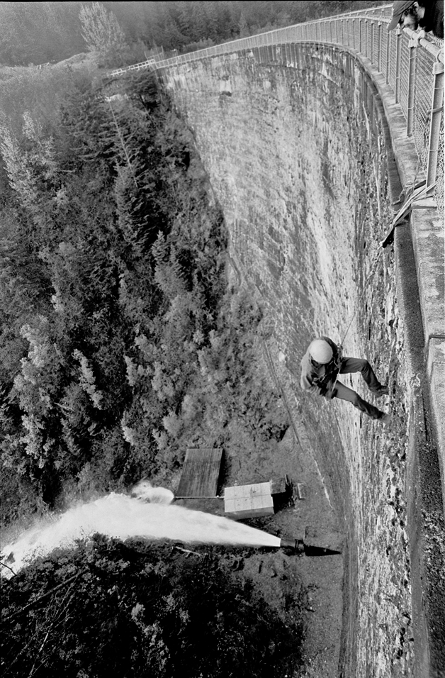 First descent of the group.